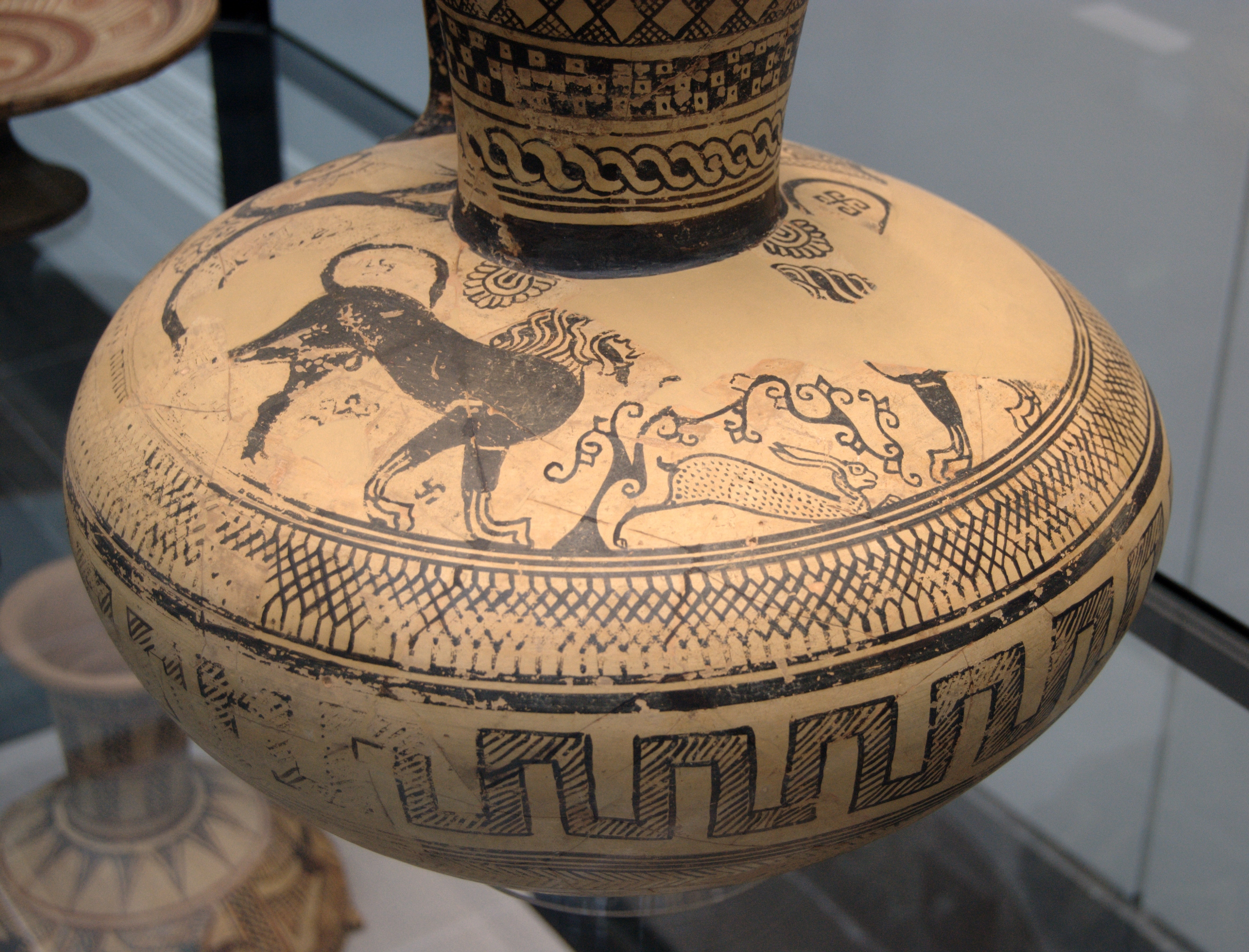 Eastern Greece jug, ca. 660 BC. Two lions surround a bush in which a hare hides.